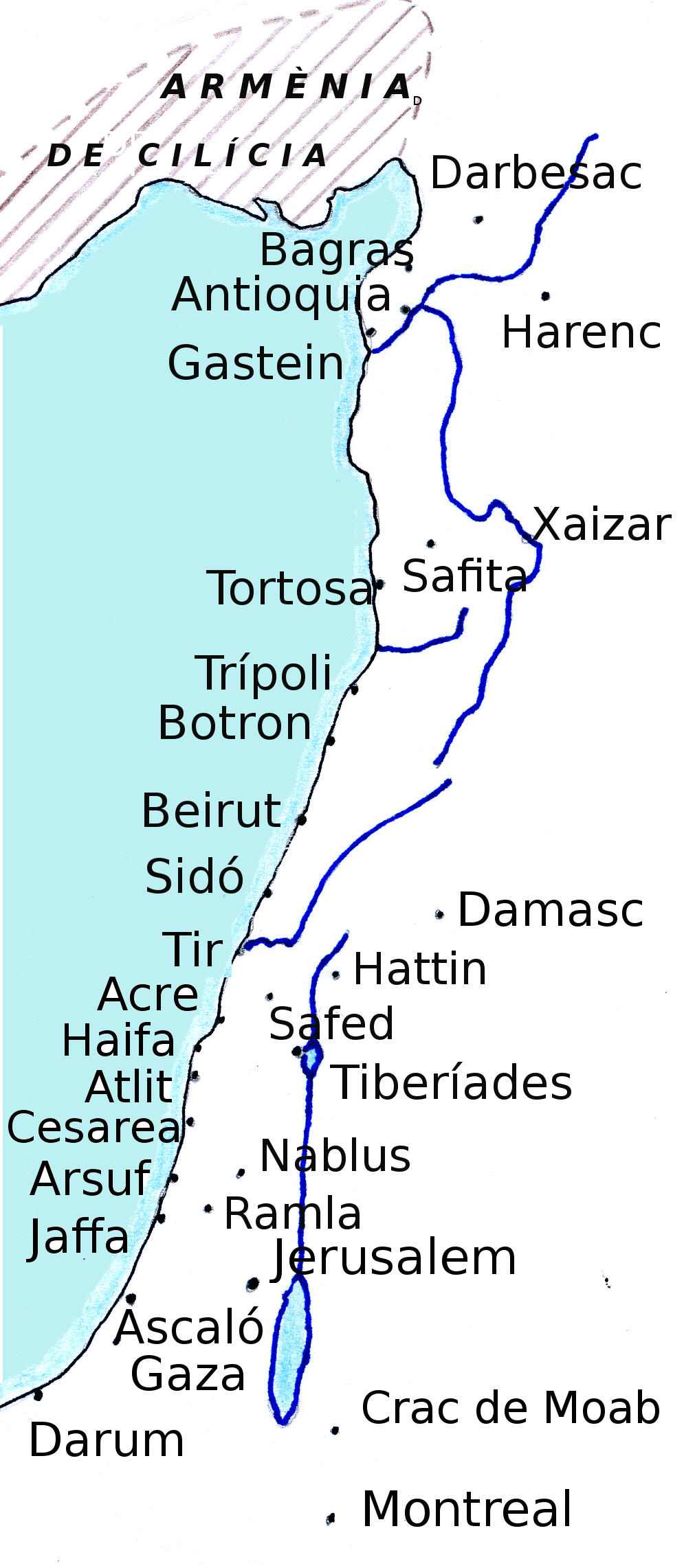 Cities in the Levant in the period of the Crusades.